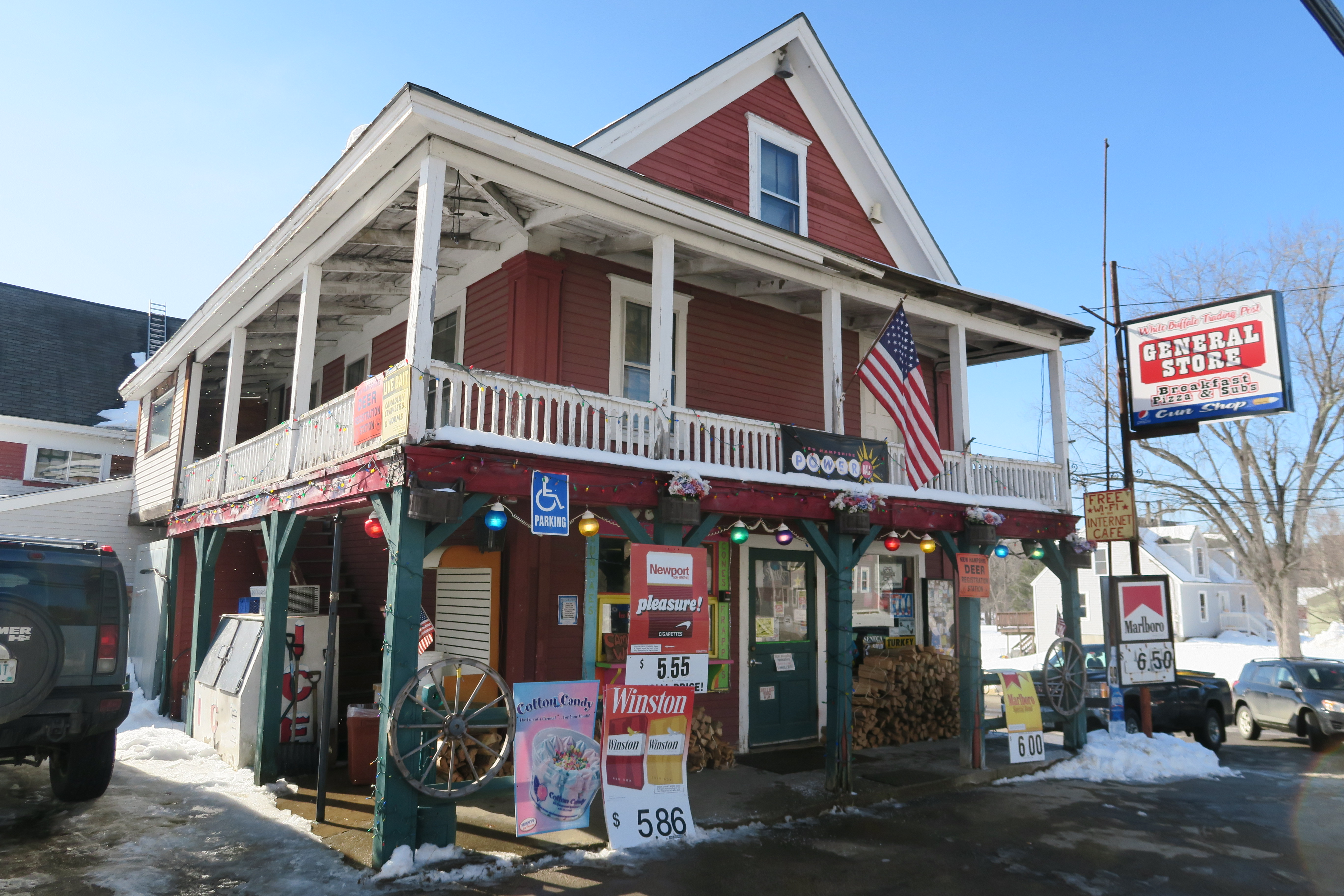 White Buffalo Trading Post, General Store, Center Barnstead New Hampshire